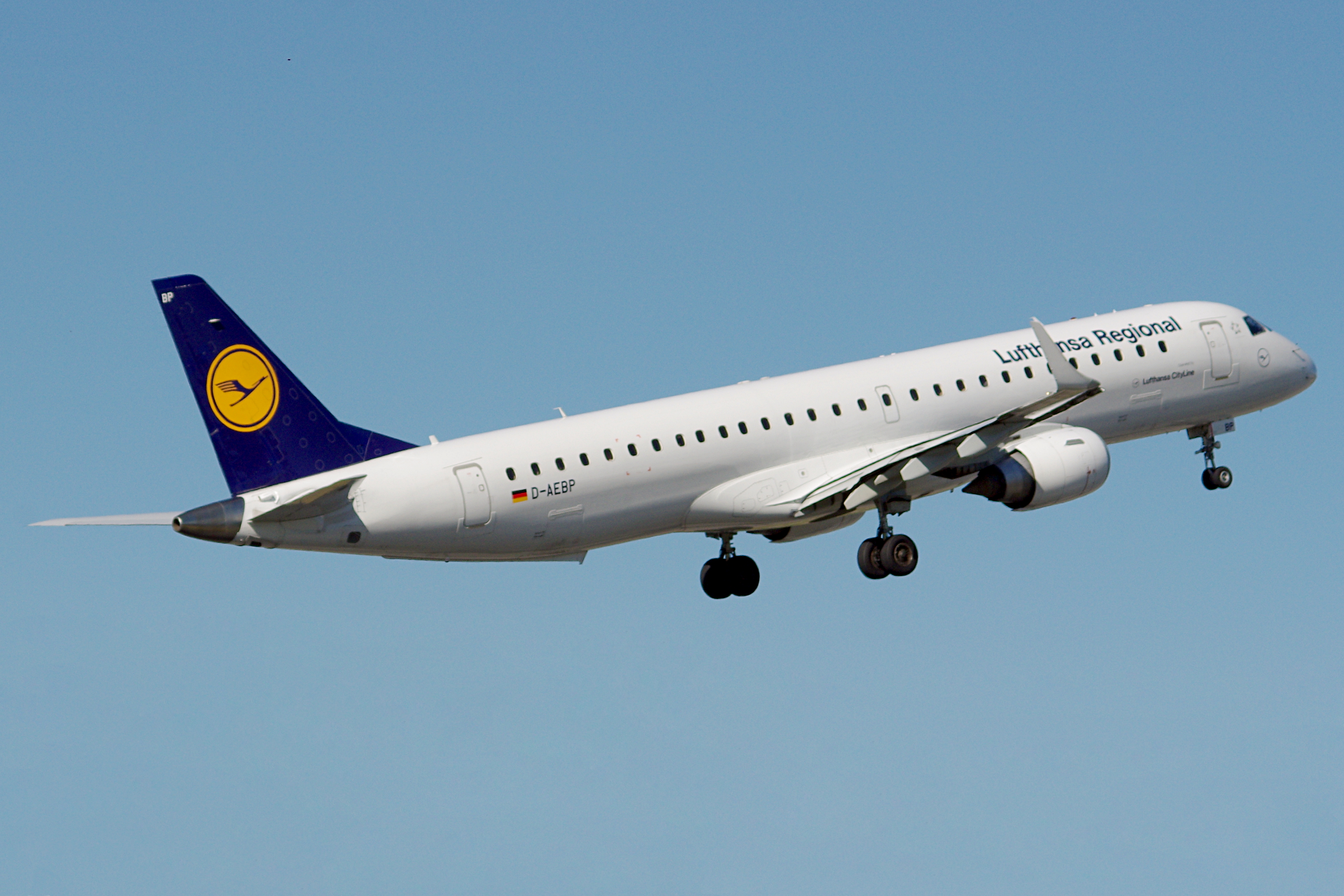 Embraer 195 of Lufthansa CityLine at Bilbao Airport.